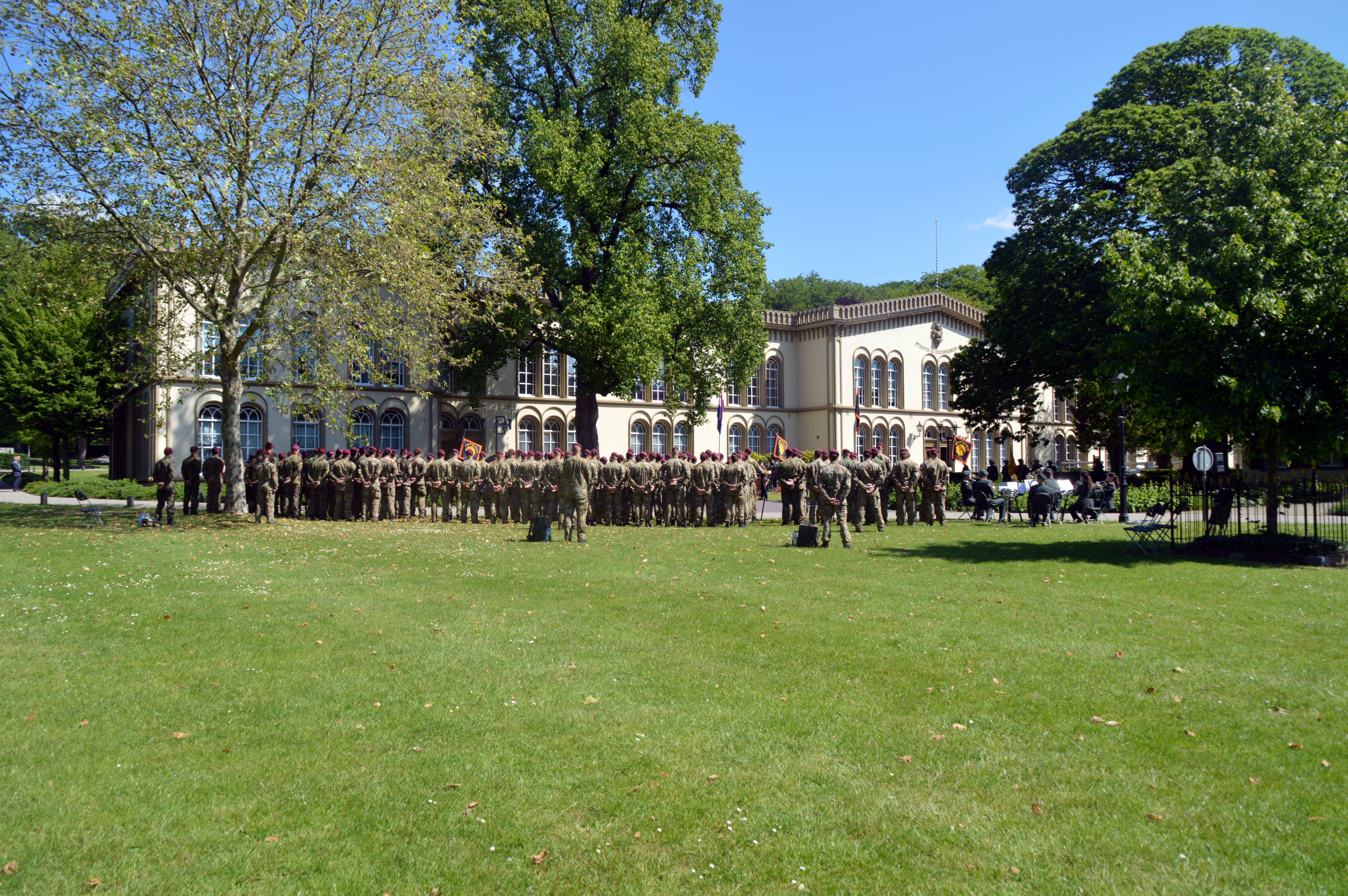 Commemoration of Abolition of Royal Netherlands East Indies Army, KNIL. Bronbeek Arnhem